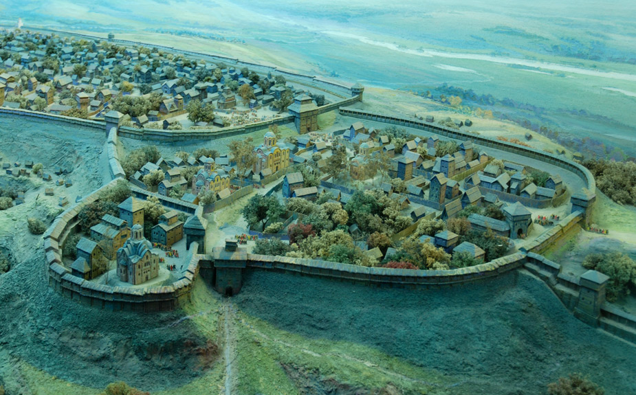 Part of the diorama of Kiev in the National History Museum of Ukraine, created by A. Kazansky